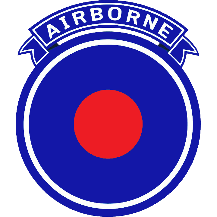 Insignia of the 2nd Infantry Division (South Korea)